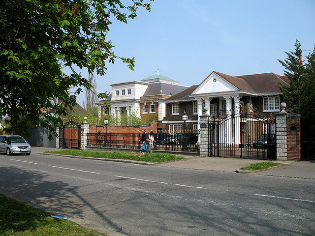 The Bishops Avenue Many different styles of housing, often based on classical Greek and Roman themes, are to be found along this famous london street - most of them very grand. The two pictured here are only medium sized dwellings!